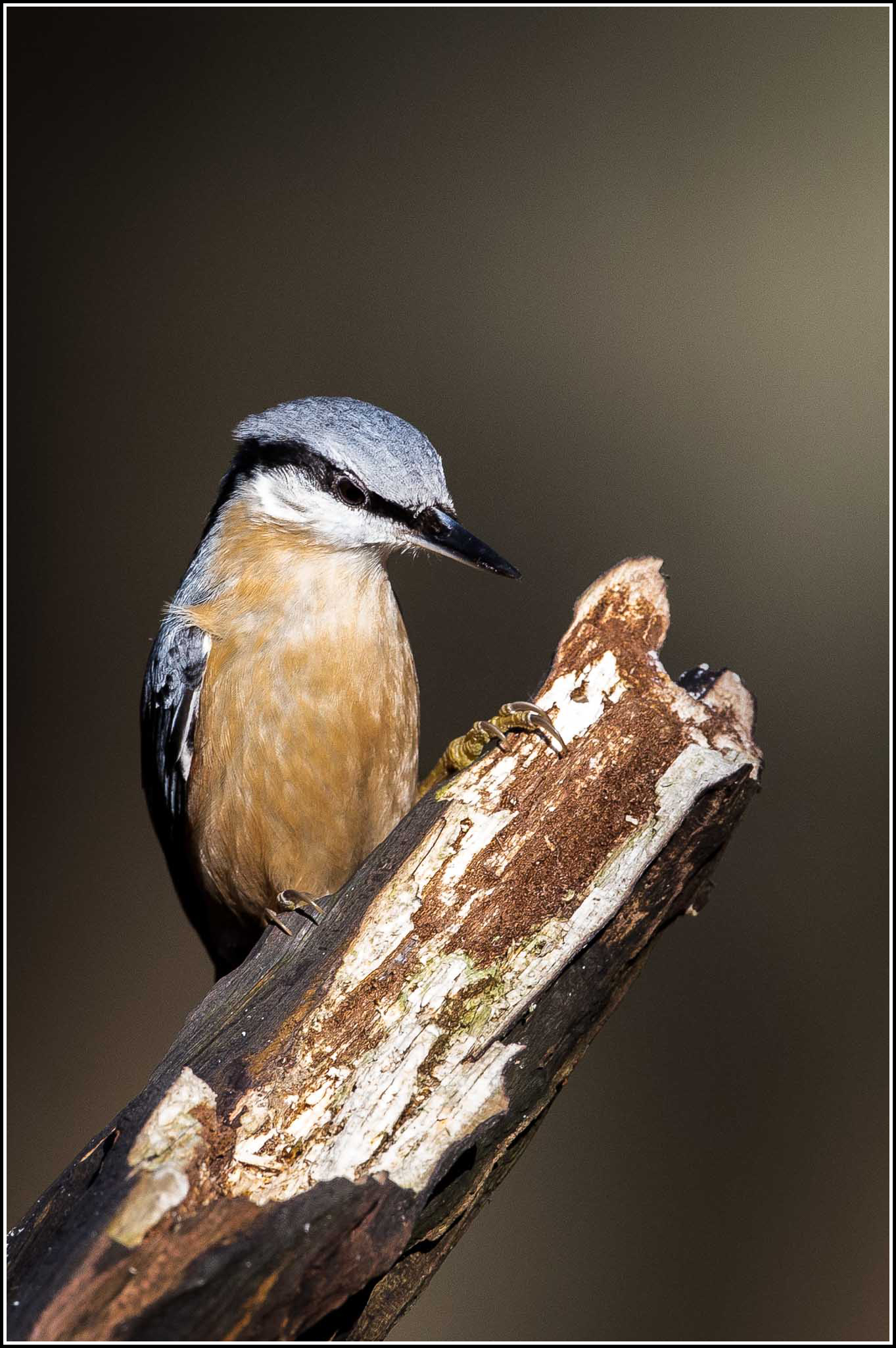 Nuthatch Sitta europaea caesia, Bossenden, Kent.